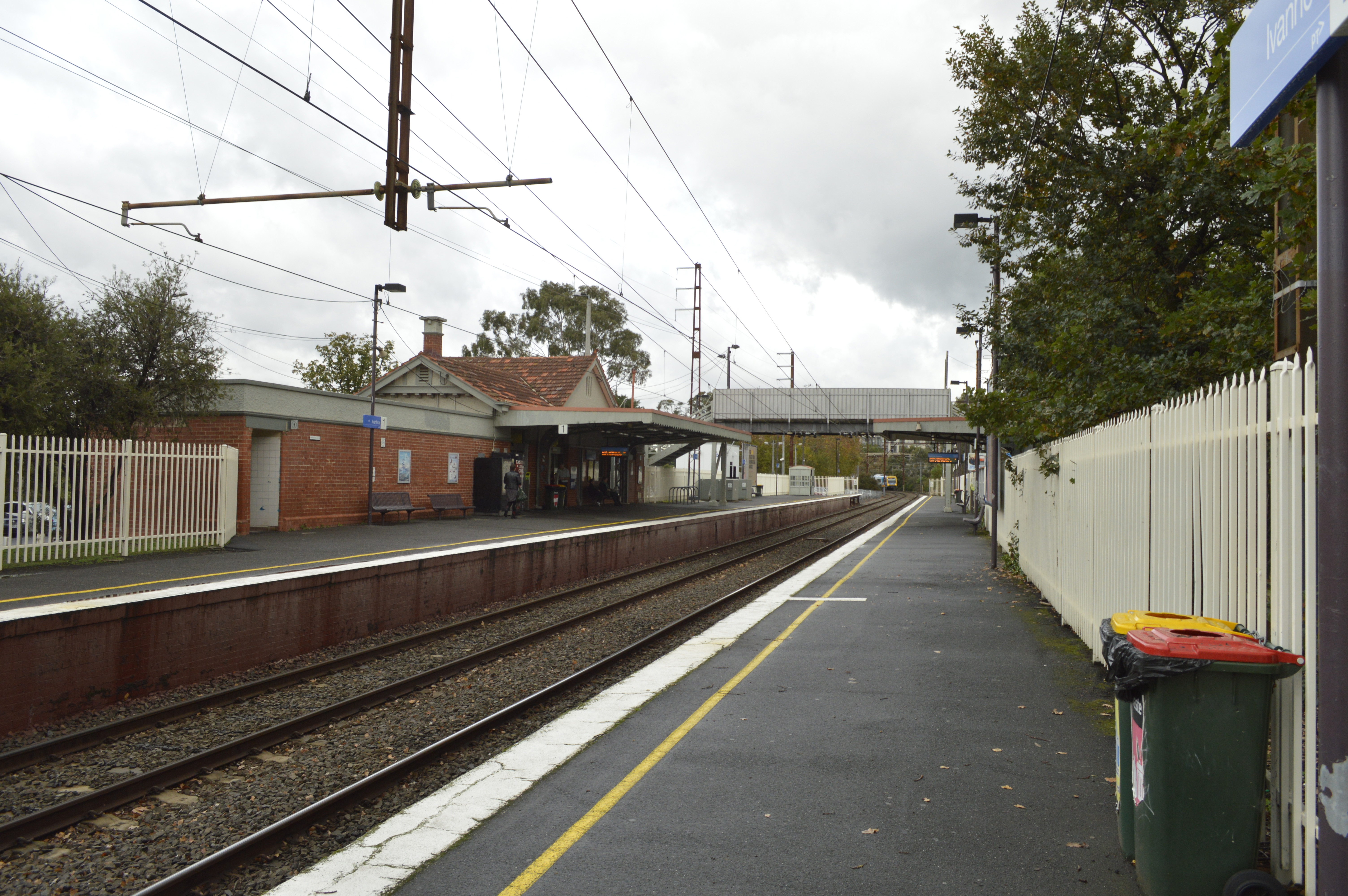 View from platform 2 looking towards Melbourne.